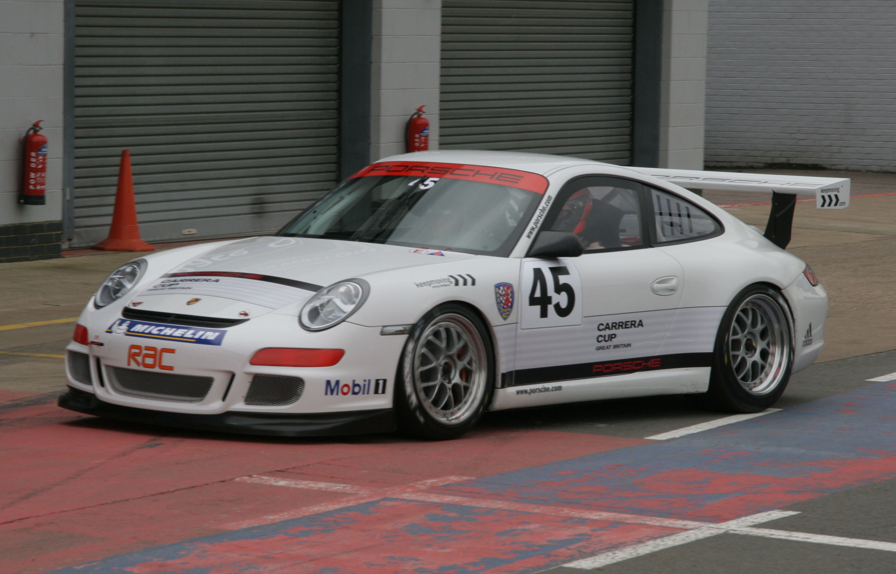 While we were at Silverstone there was a Porsche Carrera Cup Press Day in the pit lane. It seemed that nobody minded me wandering in and out as I had on my 'official' photographer bib.Porsche Carrera Cup Press Day...